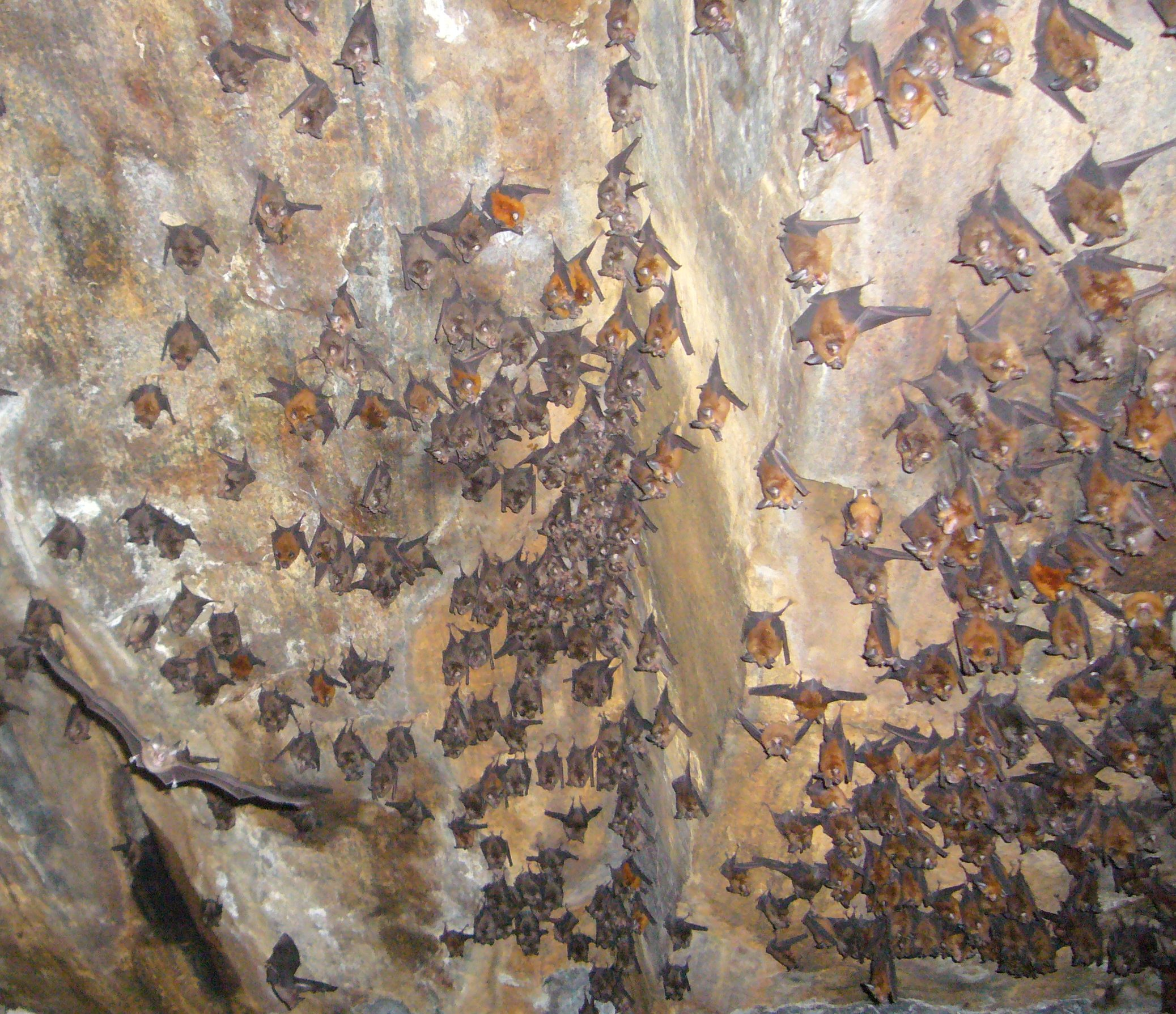 Colony of Hipposideros lankadiva (Kelaart's leaf-nosed bat) [or perhaps a mixture of the Rufous horseshoe bat (Rhinolophus rouxii) and Schneider's Leaf-nosed bat (Hipposideros speoris)] in a cave in Matale district in Sri Lanka.